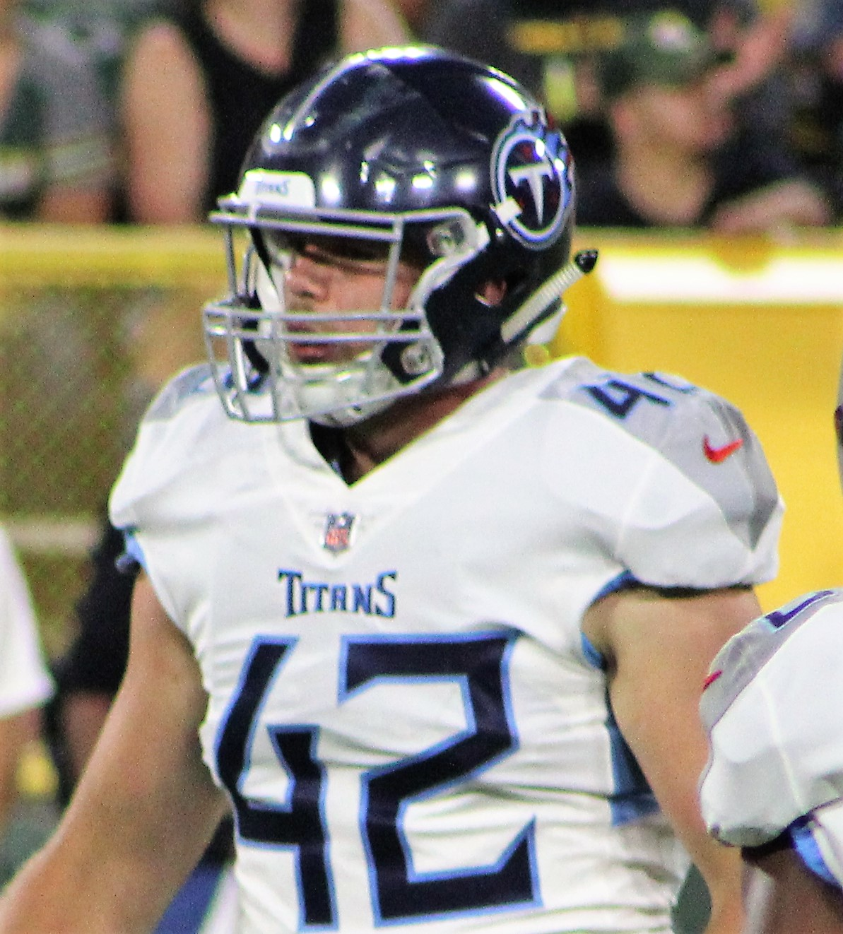 Robert Spillane, Tennessee Titans at Green Bay Packers (Preseason), August 9, 2018